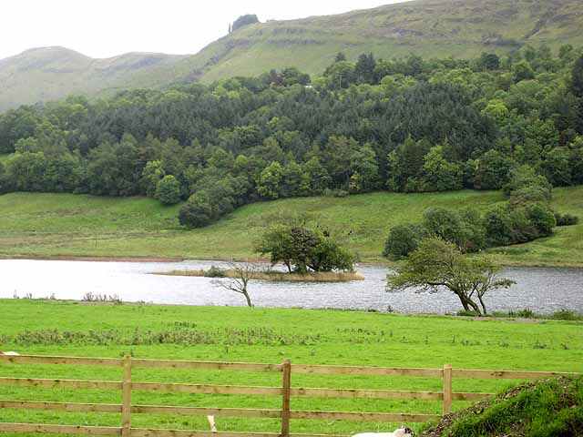 Crannog in Glencar Lough The remains of a lake village in the middle of the Lough. The hill mass of Crockauns G7541 can be seen in the distance.